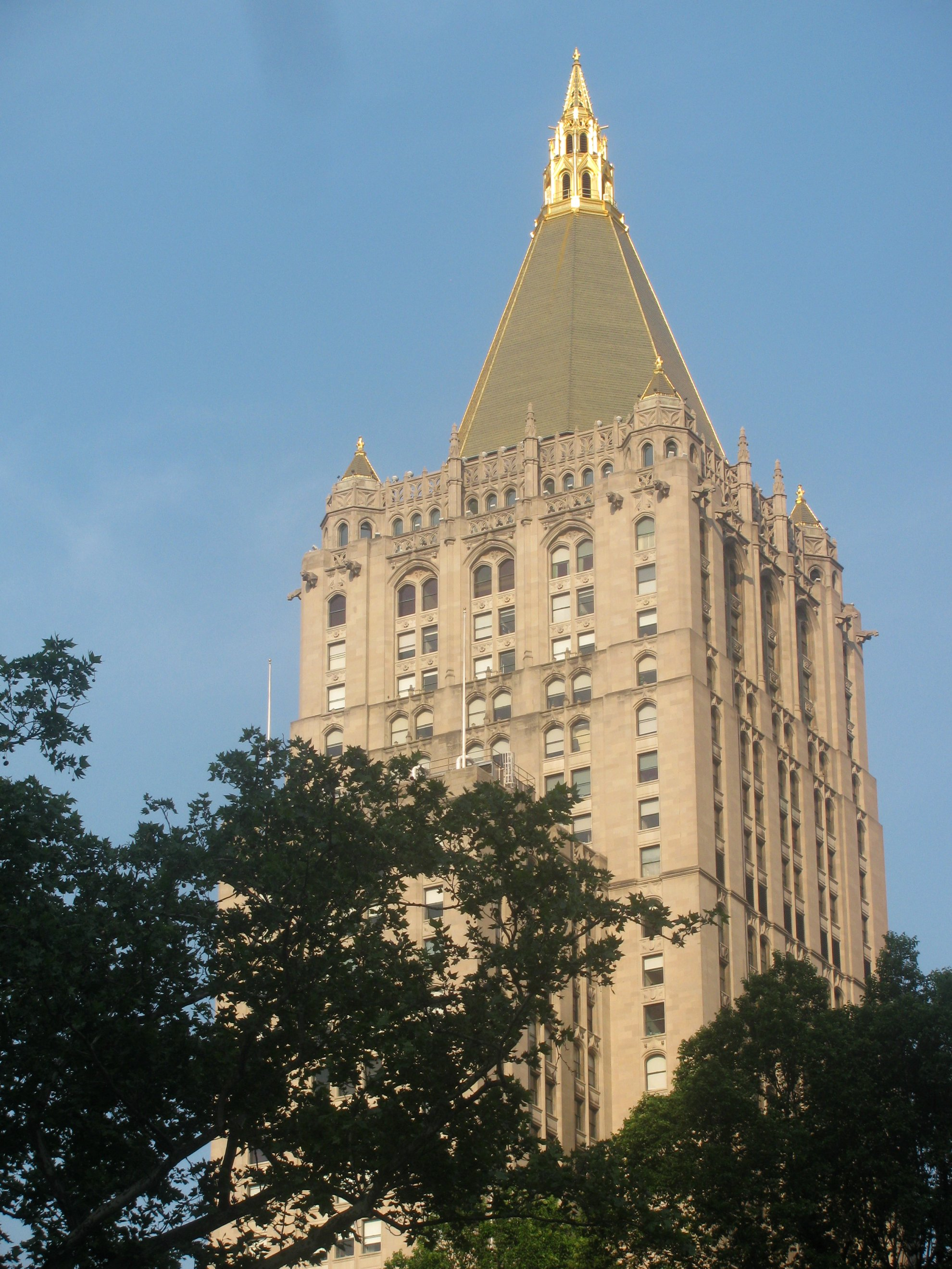 A 1928 building by Cass Gilbert, built on the site of Stanford White's Madison Square Garden. .